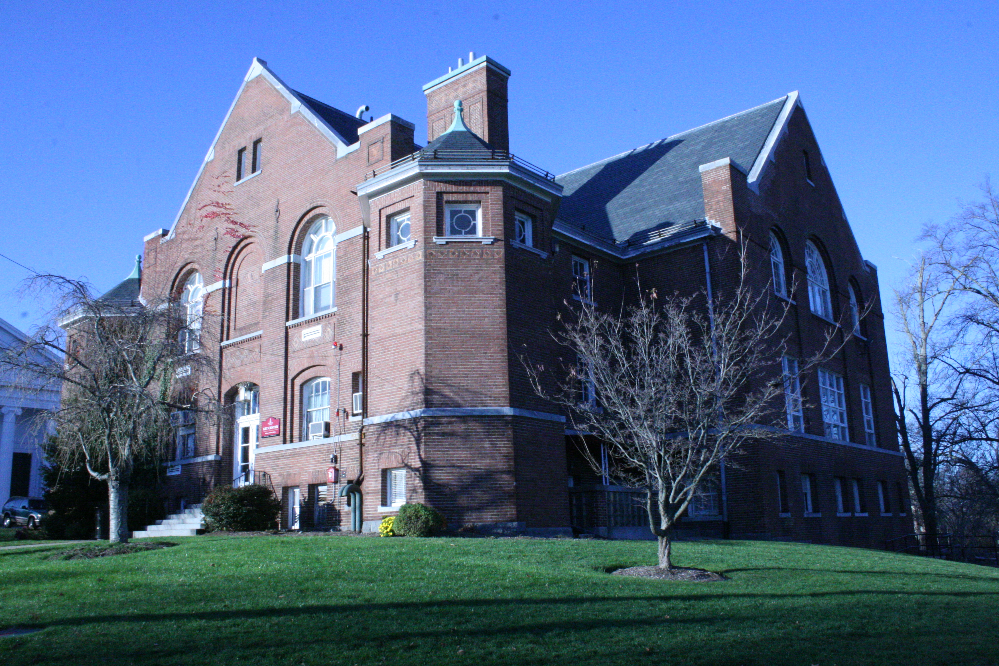 The Arts Center at Bridgewater State University 40 School St. Bridgewater Ma